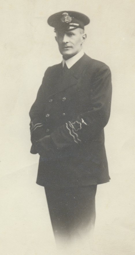 Historical photo